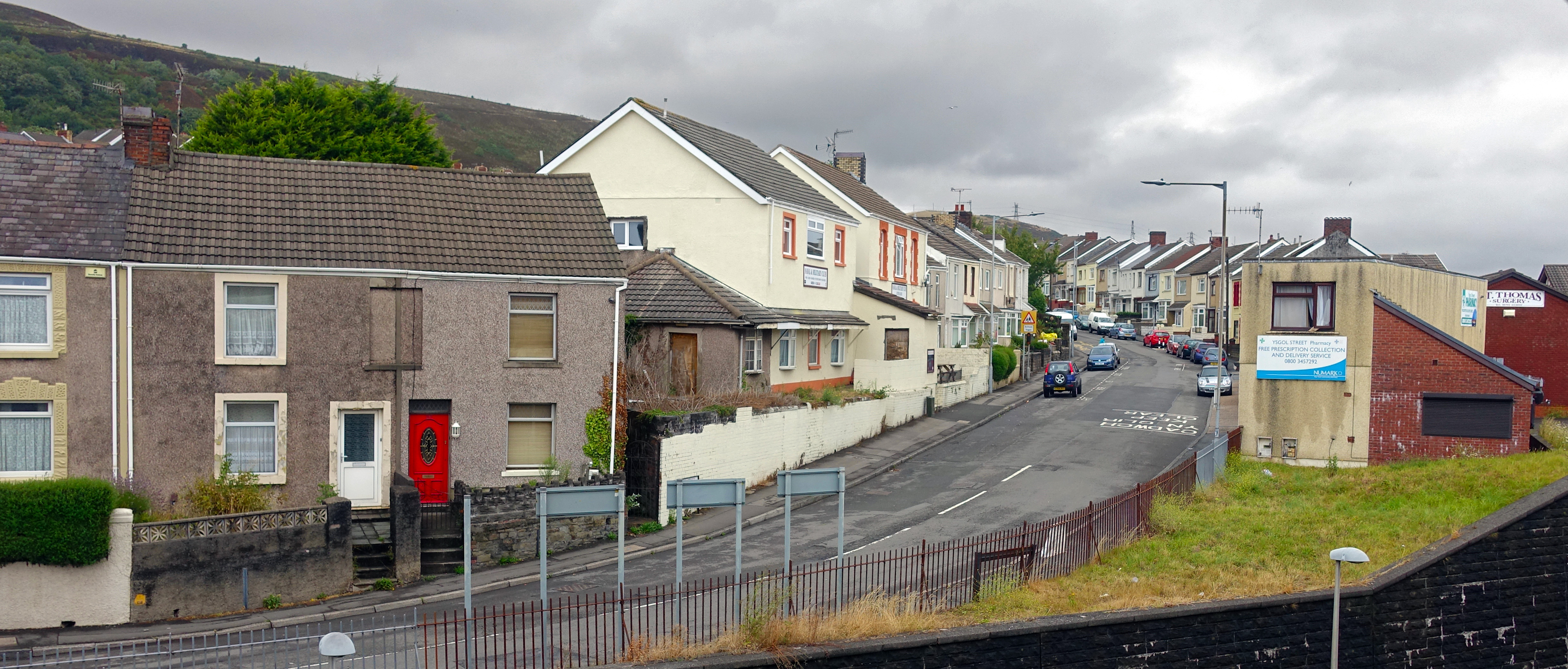 Ysgol Street in Port Tennant area, Swansea.